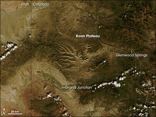 Roan Plateau, Colorado Image from NASA's Moderate Resolution Imaging Spectroradiometer (MODIS) on NASA’s Terra satellite, taken September 25, 2008. URL